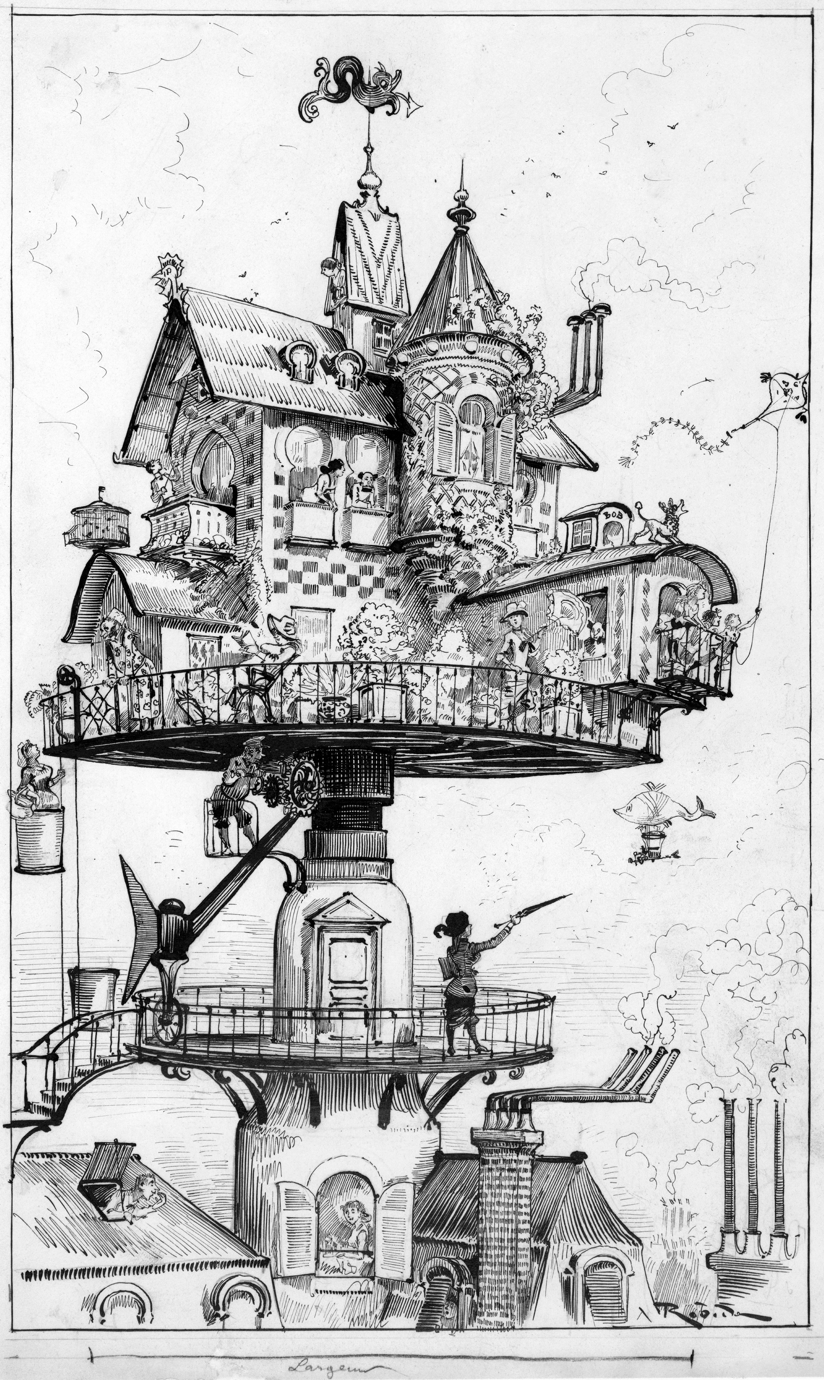 "Maison tournante aérienne": drawing shows a dwelling structure elevated above rooftops and designed to revolve and adjust in various directions. An occupant points to an airship with a fish-shaped bag in the sky lower right. One of the artist's conceptions for his book on life in the upcoming twentieth century. (Source: A.G. Renstrom, LC staff, 1981-82.) ink over graphite underdrawing.